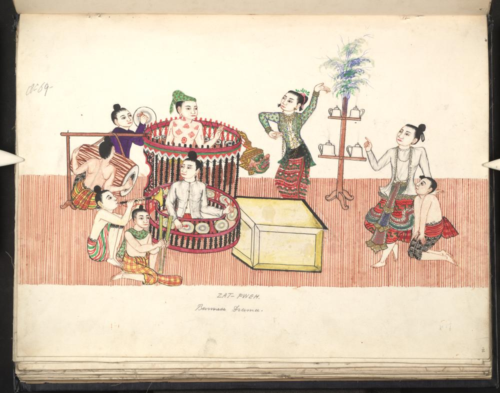 Watercolour painting by an unknown Burmese artist depicting 19th century Burmese life. text: ZAT-BWEH Burmese Drama. More description at [1] Shelfmark: Ms. Burm. a. 5